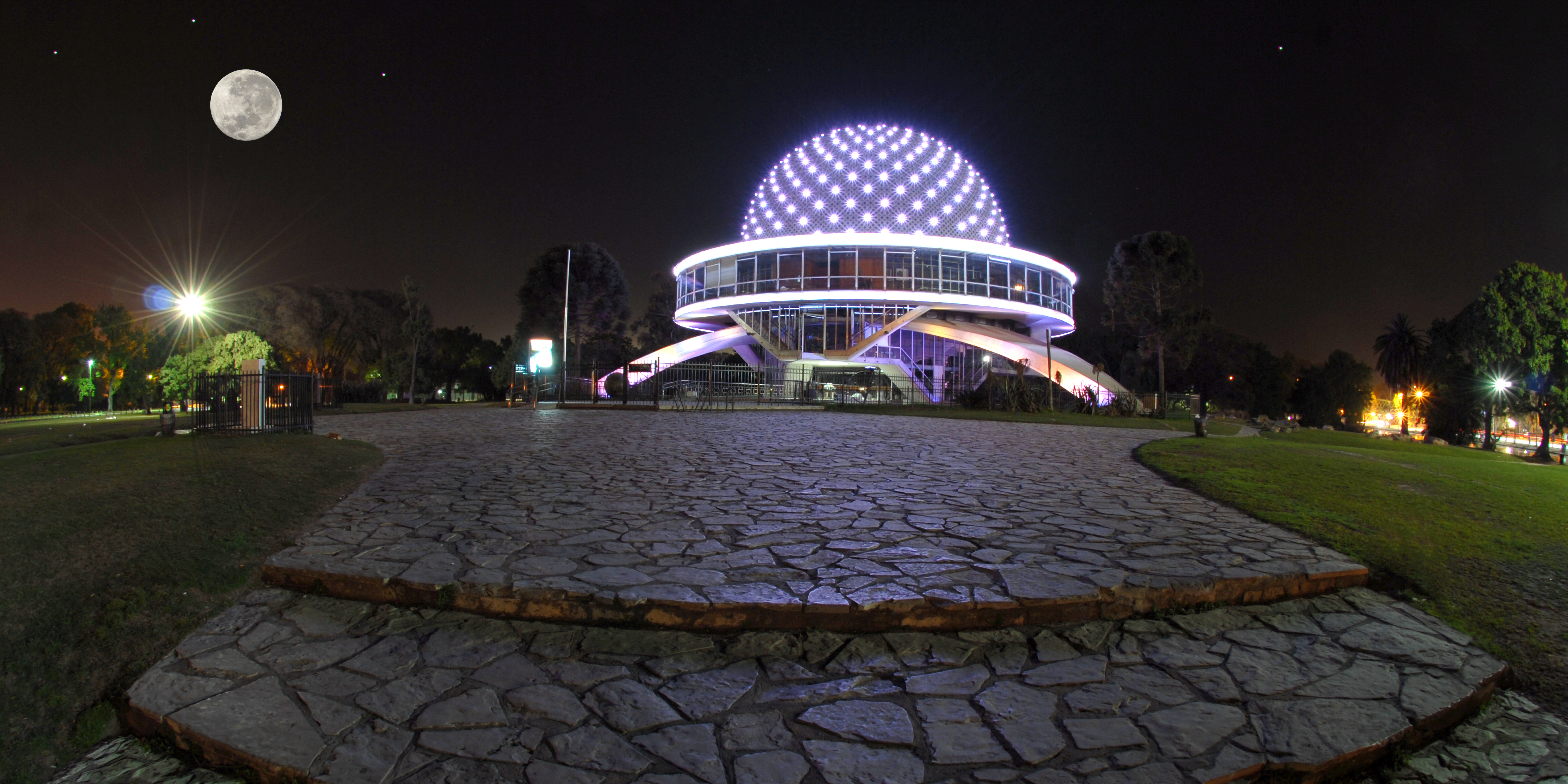 Galileo Galilei Planetarium at night, in the Parque Tres de Febrero, in the neighborhood of Palermo in Buenos Aires, Argentina.